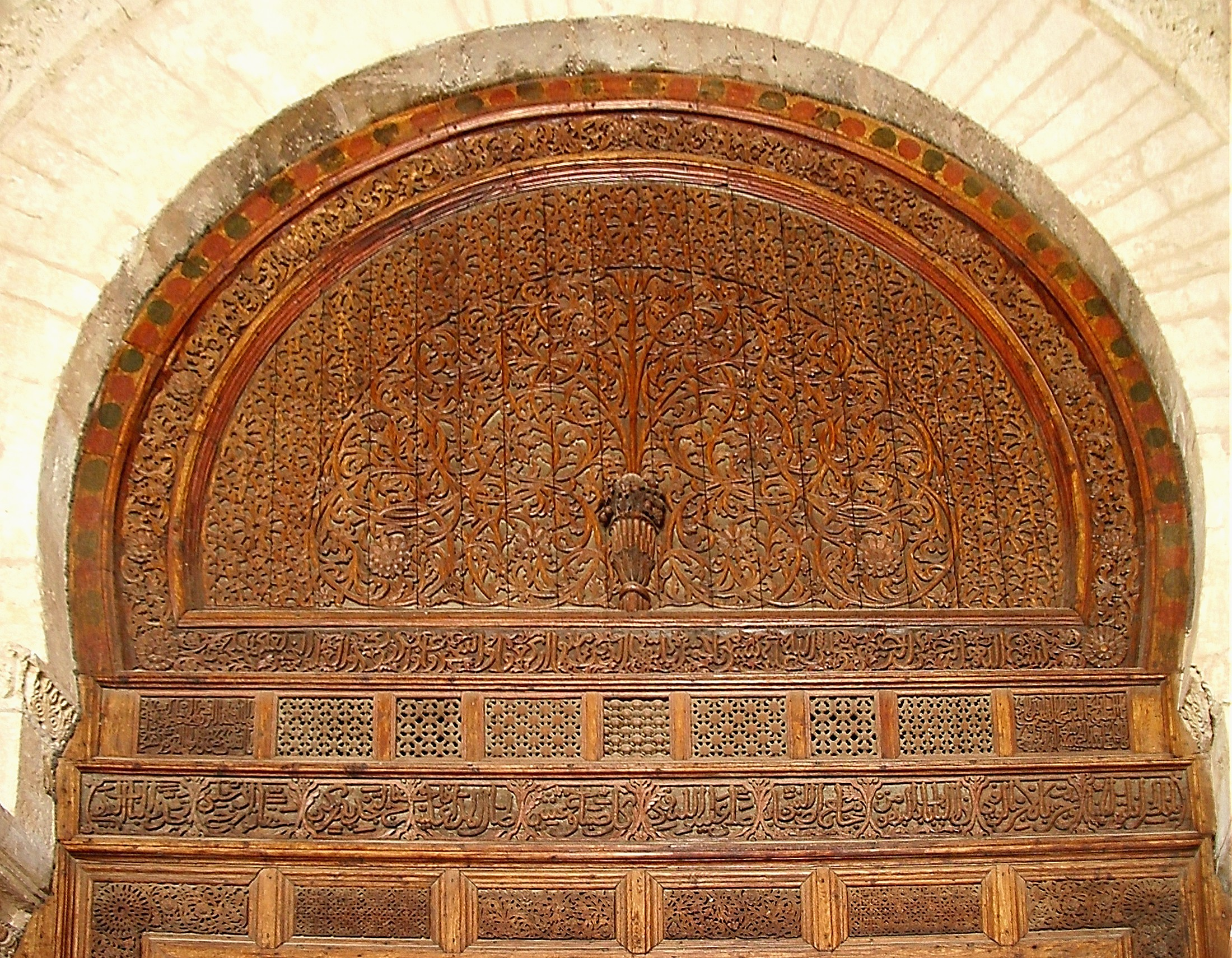 Upper part of the main door of the prayer hall of the Great Mosque of Kairouan, in Tunisia.